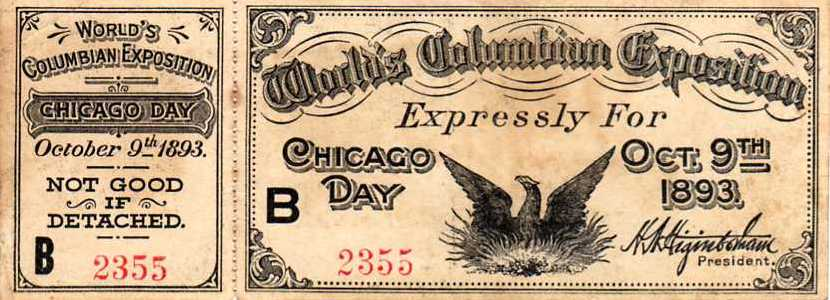 Ticket for "Chicago Day" at 1893 World's Columbian Exposition of 1893. Photocopy by Jacobsteinafm.